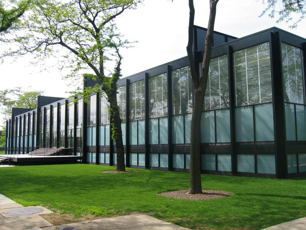 Crown Hall at the Illinois Institute of Technology, Chicago, Illinois. Designed by Ludwig Mies van der Rohe; completed 1956. Photographed 14 May 2006. © Jeremy Atherton, 2006